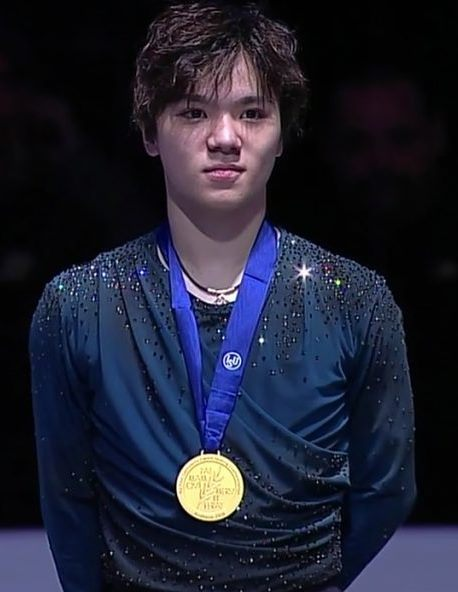 Shoma Uno on the podium, 2019 Four Continents Figure Skating Championships